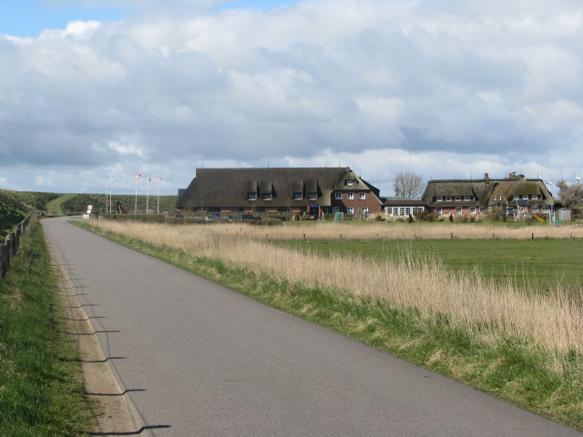 Hotel Arlauschleuse in the municipality Hattstedtermarsch, Germany just aside Beltringharder Koog